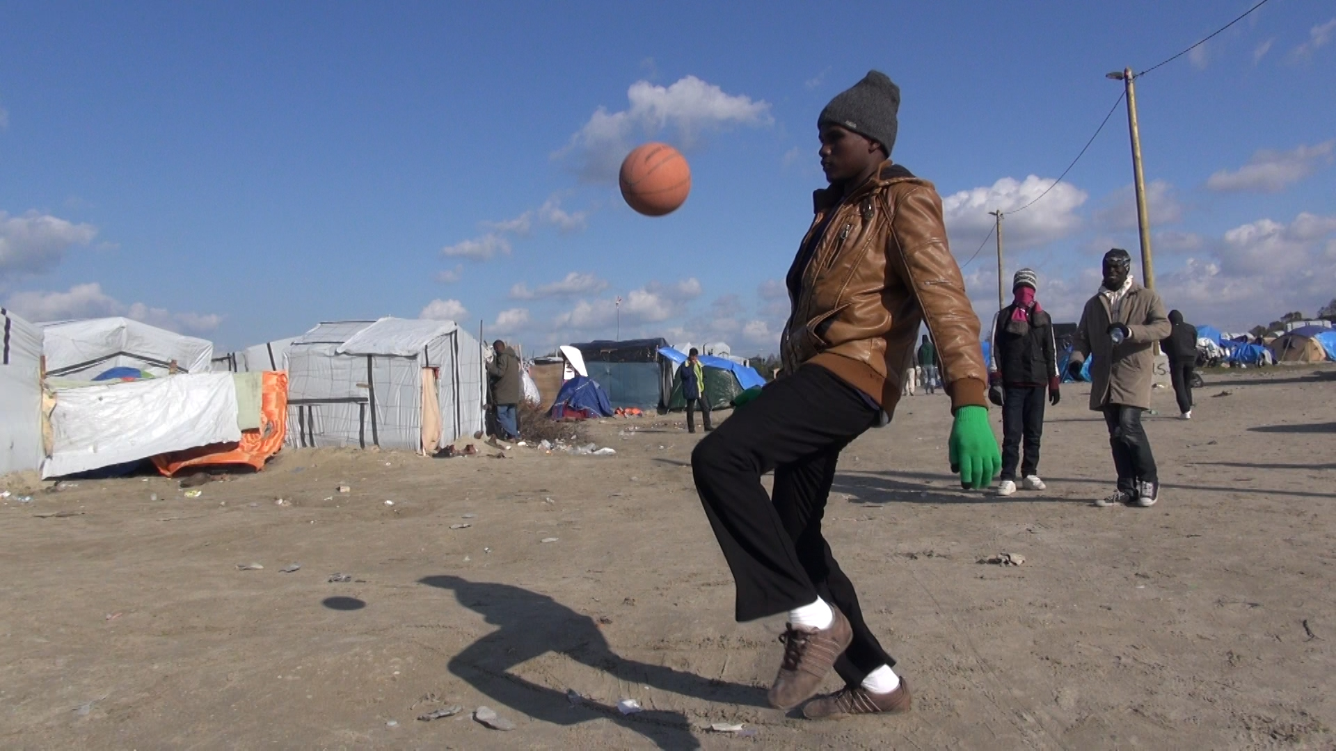 A migrant and/or a refugee at the "jungle" refugee/migrant camp in Calais, France, Oct. 2015